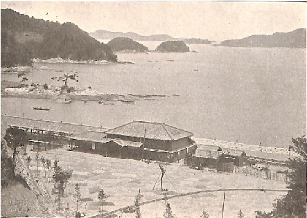 Toba Station on the Sangu Line just before opening, in Toba, Mie, Japan